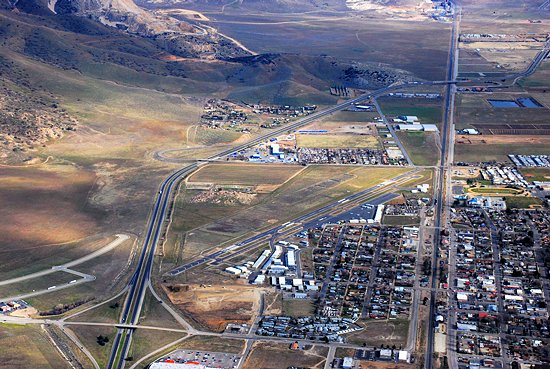 Aerial of the Tehachapi area — in the Tehachapi Mountains, Kern County, south−central California. With California State Route 58 (left), the Tehachapi Municipal Airport, and the Southern Pacific railroad tracks (right).